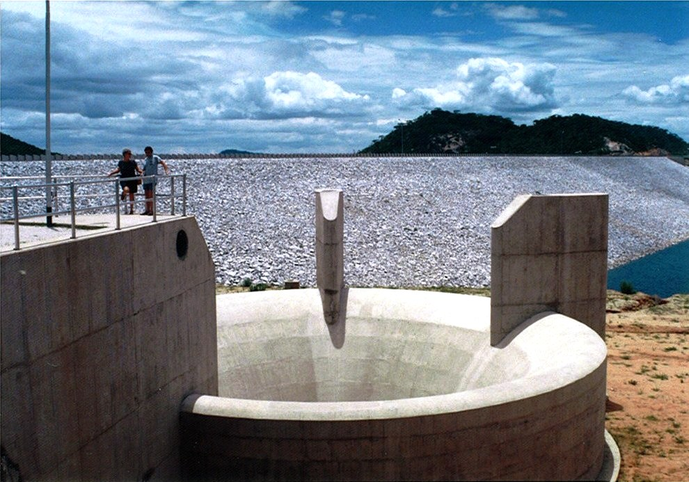 Osborne dam spillway before the reservoir filled